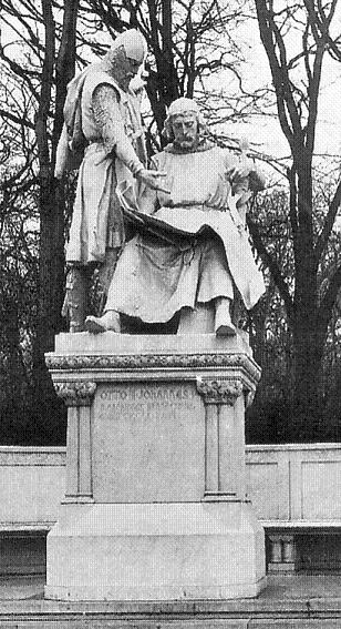 The former Siegesallee in Berlin with the double statue (detail) commemorating the corulers of Brandenburg, Margrave John I (1213–1266) and Margrave Otto III (ca. 1215–1267), sons of Albert II and grandchildren of Otto II. Sculptor: Max Baumbach. The sculpture was unveiled on 22 March 1900. Spread across the knees of John I is the document granting town charters to Berlin and Cölln. The younger Otto III stands beside him, pointing to the charter with one arm while the other rests on a hunting spike. The youthful city founders are portrayed here as mature men, because in the view of contemporaries the significance of founding the later metropolis would not have been adequately manifested as an act of two youngsters.